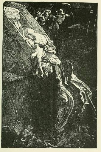 Illustration of D Defoe by Frederic Shields 'The Plague Cart'